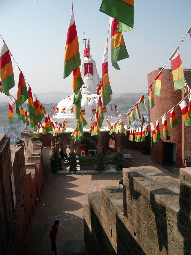 Chamunda Devi Temple, Meherangarh Fort, Jodhpur.